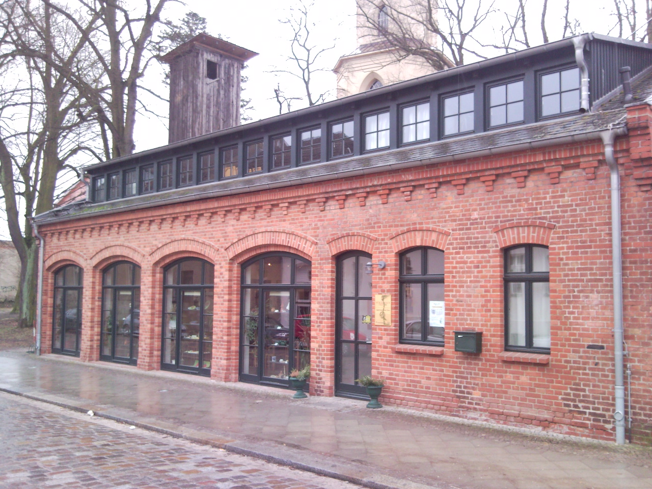 Historical fire station in Teltow, rebuilded to a community center.